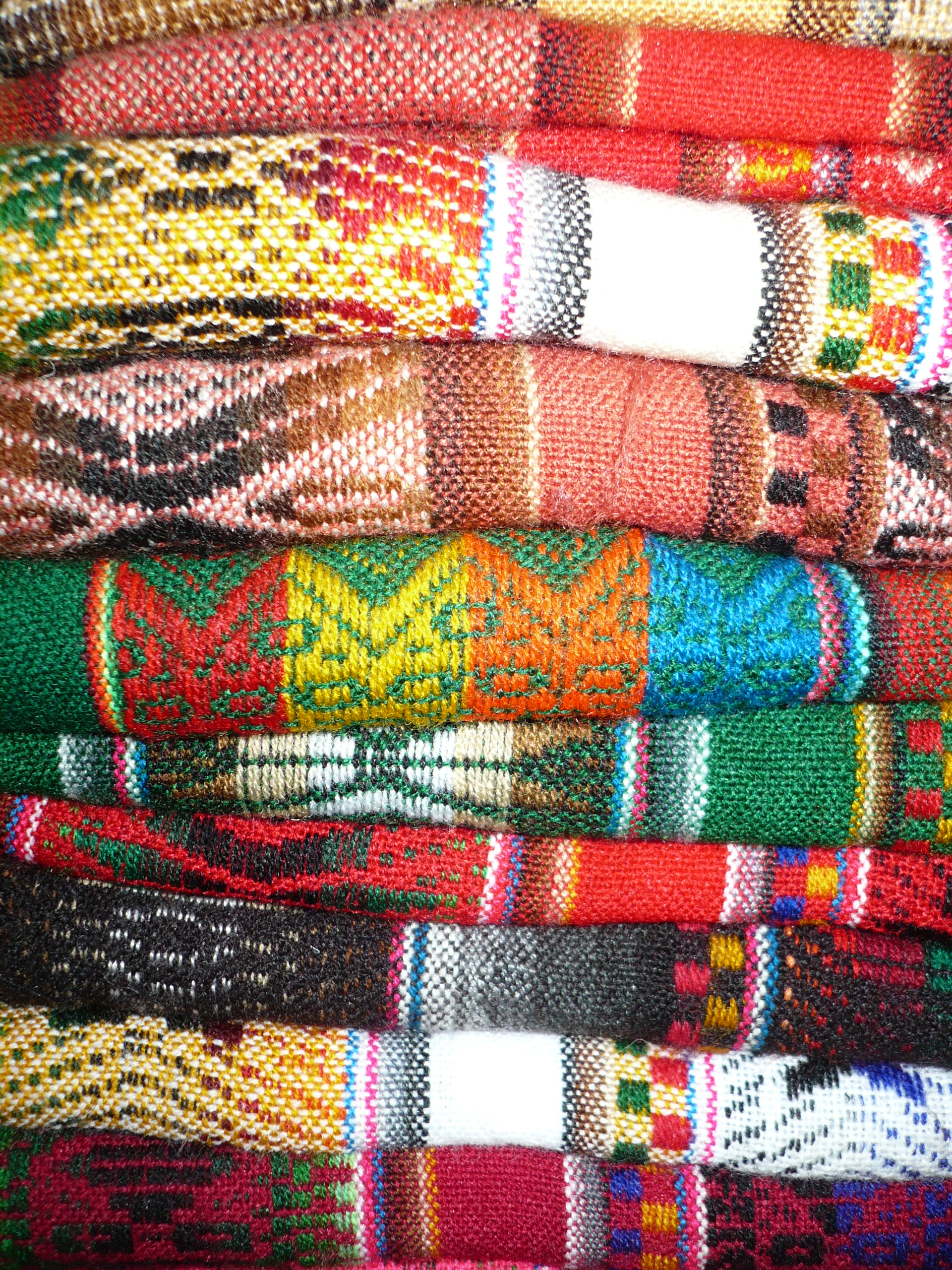 multicolored wool fabric. La Paz, Bolivia